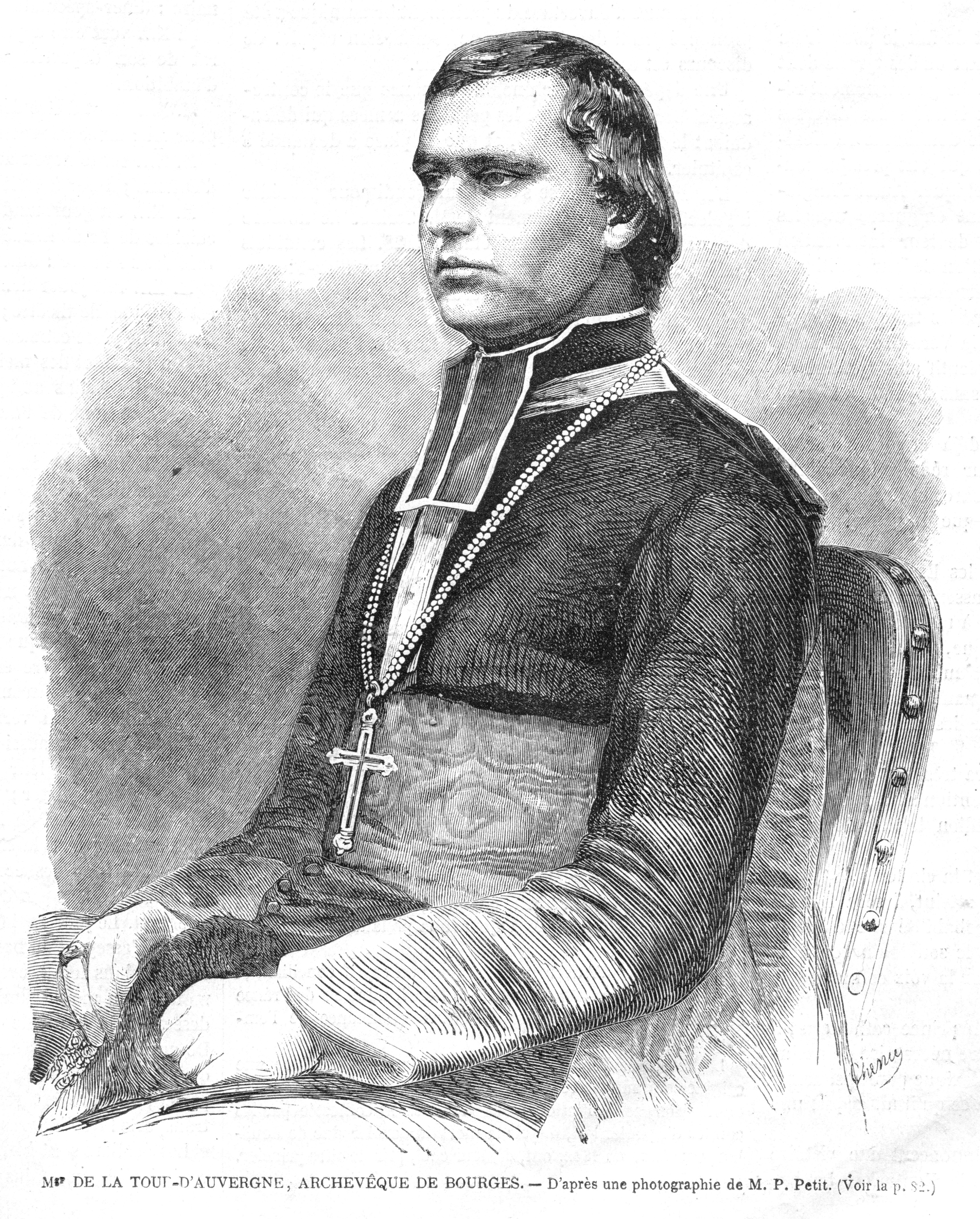 L'Illustration 1862 gravure Mgr de La Tour d'Auvergne Archévêque de Bourges